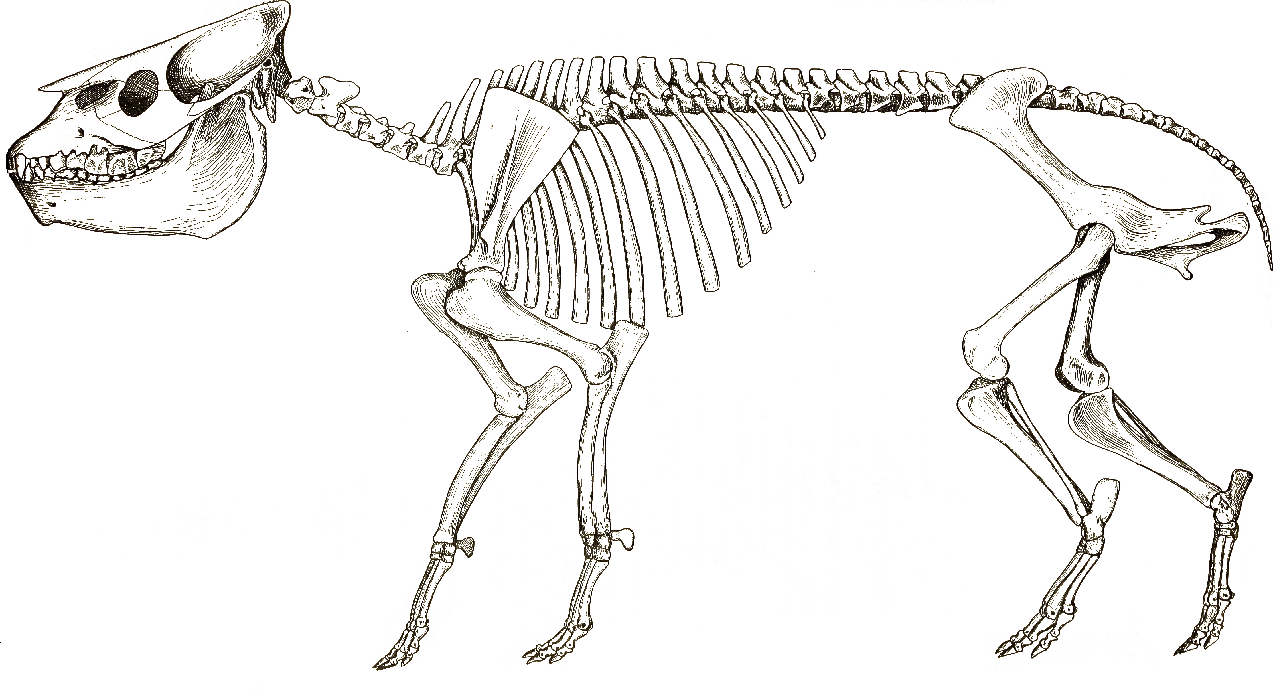 Title: The American journal of science Year: 1880 (1880s) Authors: Subjects: Science Publisher: New Haven : J. D. & E. S. Dana Text Appearing Before Image: ' Text Appearing After Image: '